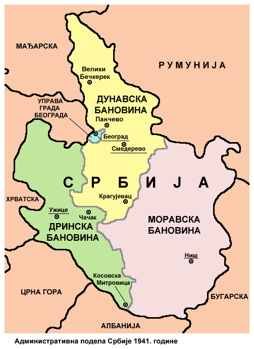 Administrative division of Serbia in 1941.